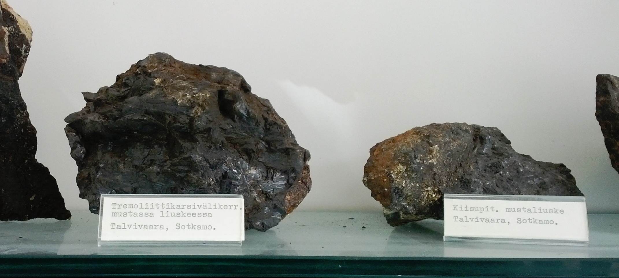 Black schist ore samples from Talvivaara: tremolite layer in black schist and iron/nickel sulfide in black schist. Aalto University, Department of Materials Science and Engineering.